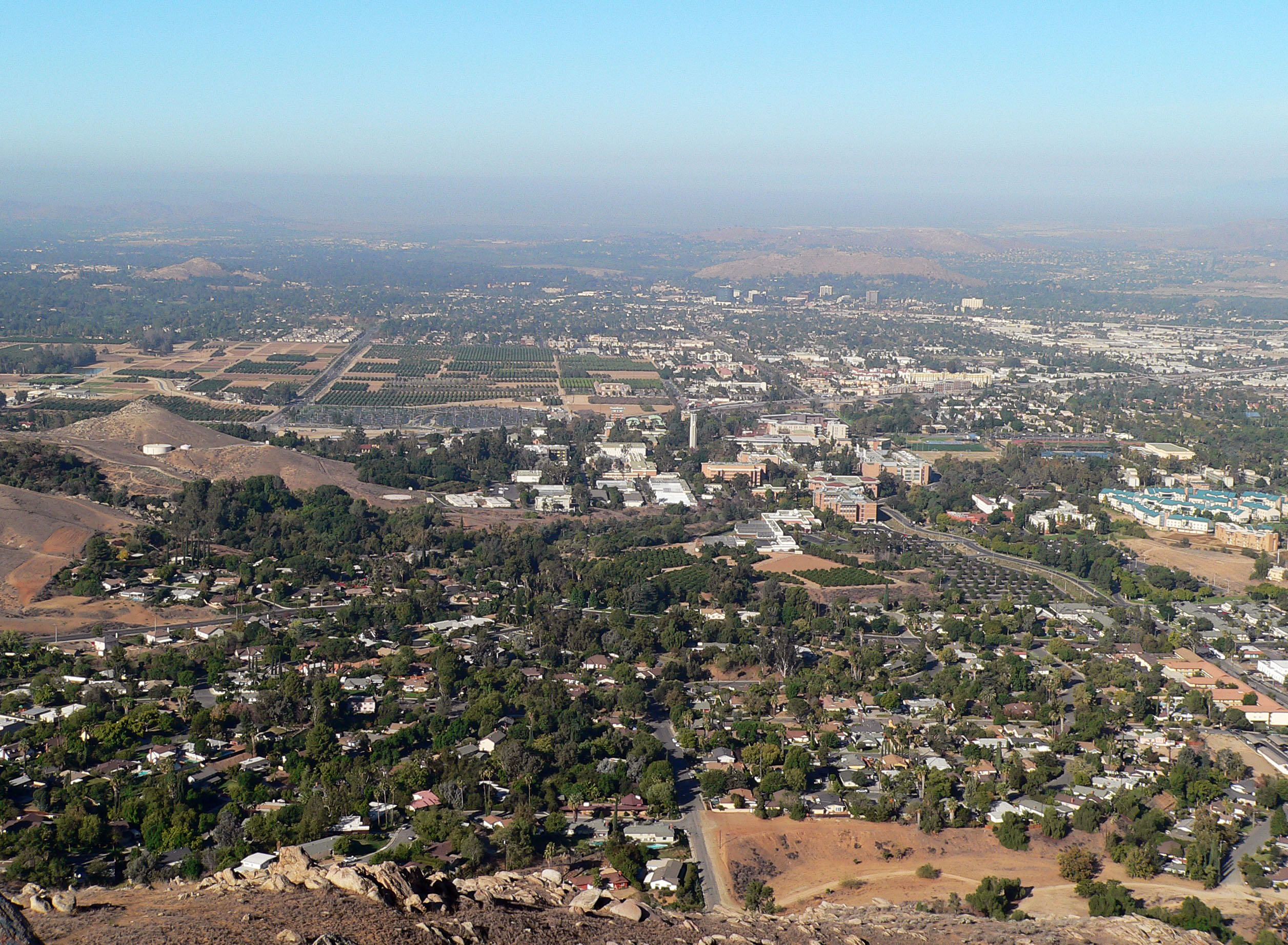 View from the Box Springs Mountains of Riverside, California. University of California, Riverside in foreground.